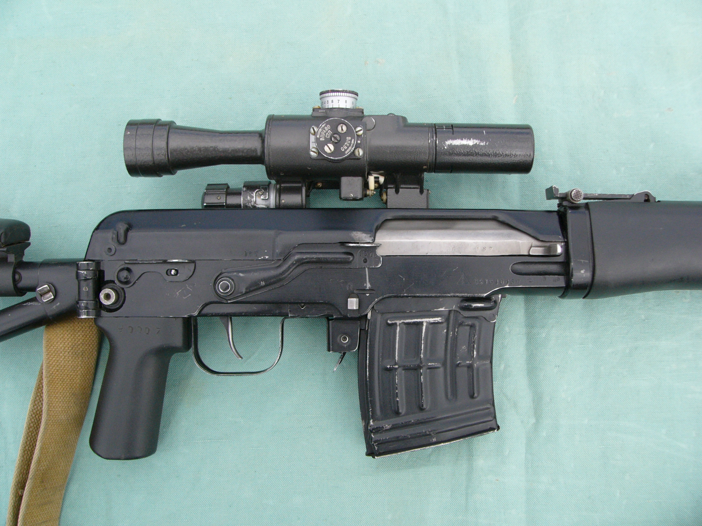 telescopic sight PSO-1 at SVD rifle